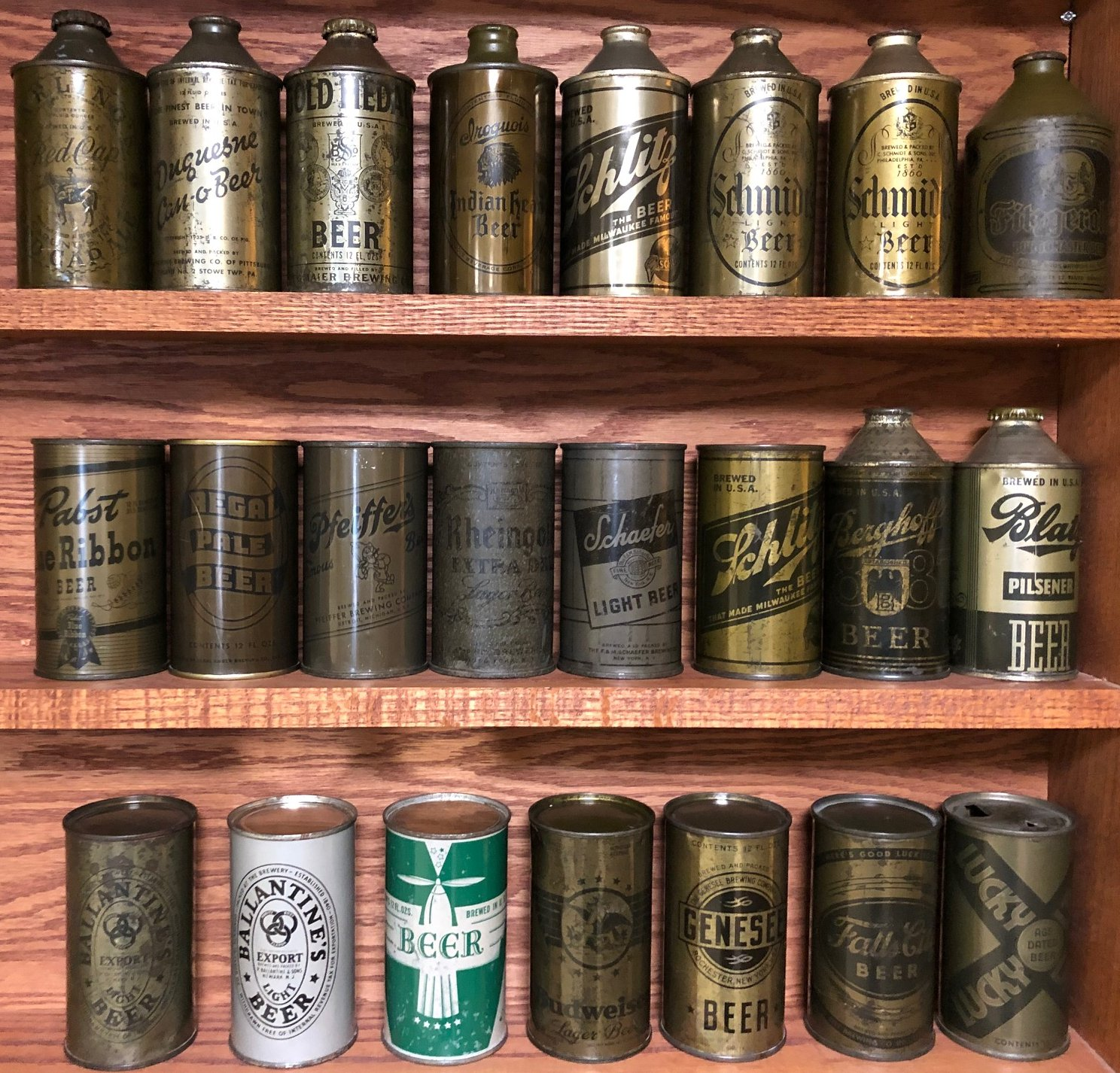 A collection of WWII-era olive drab beer cans. The United States government allowed approximately two dozen breweries to can beer for shipping to the armed forces overseas.